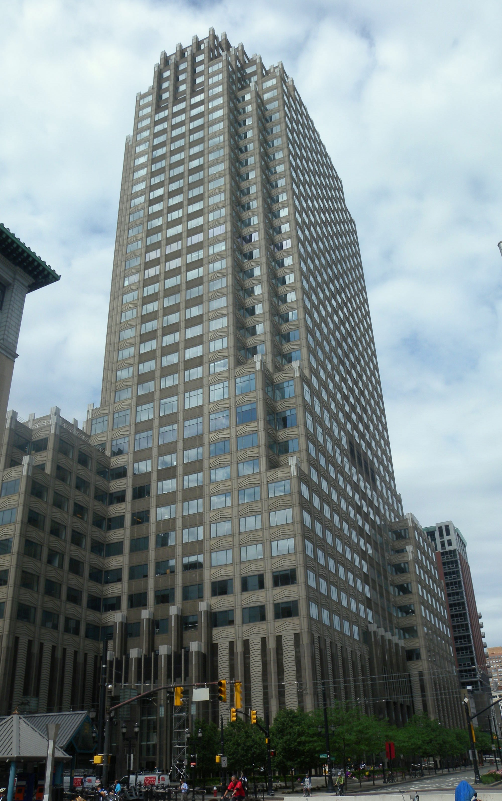 Looking west across Montgomery Street at 101 Hudson Street on a mostly cloudy morning.